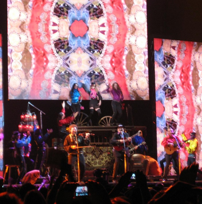 Madonna performing La Isla Bonita on the "Sticky & Sweet Tour"